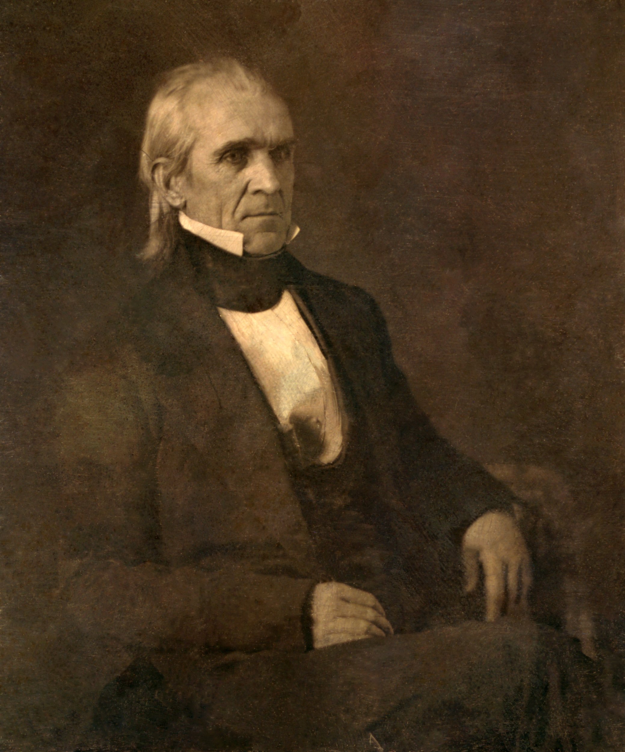 United States president James Knox Polk, three-quarter length portrait, three-quarters to the right, seated. Daguerrotype